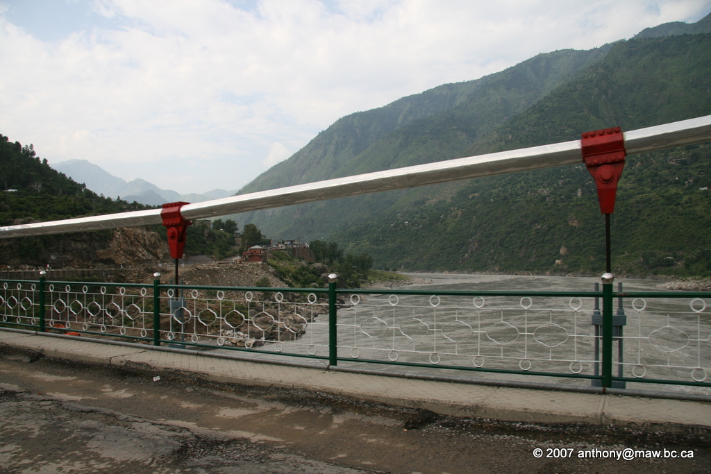 Youyi Bridge is the official Pakistan End of the Frontier Works Organisation Karakoram Highway (FWO KKH)